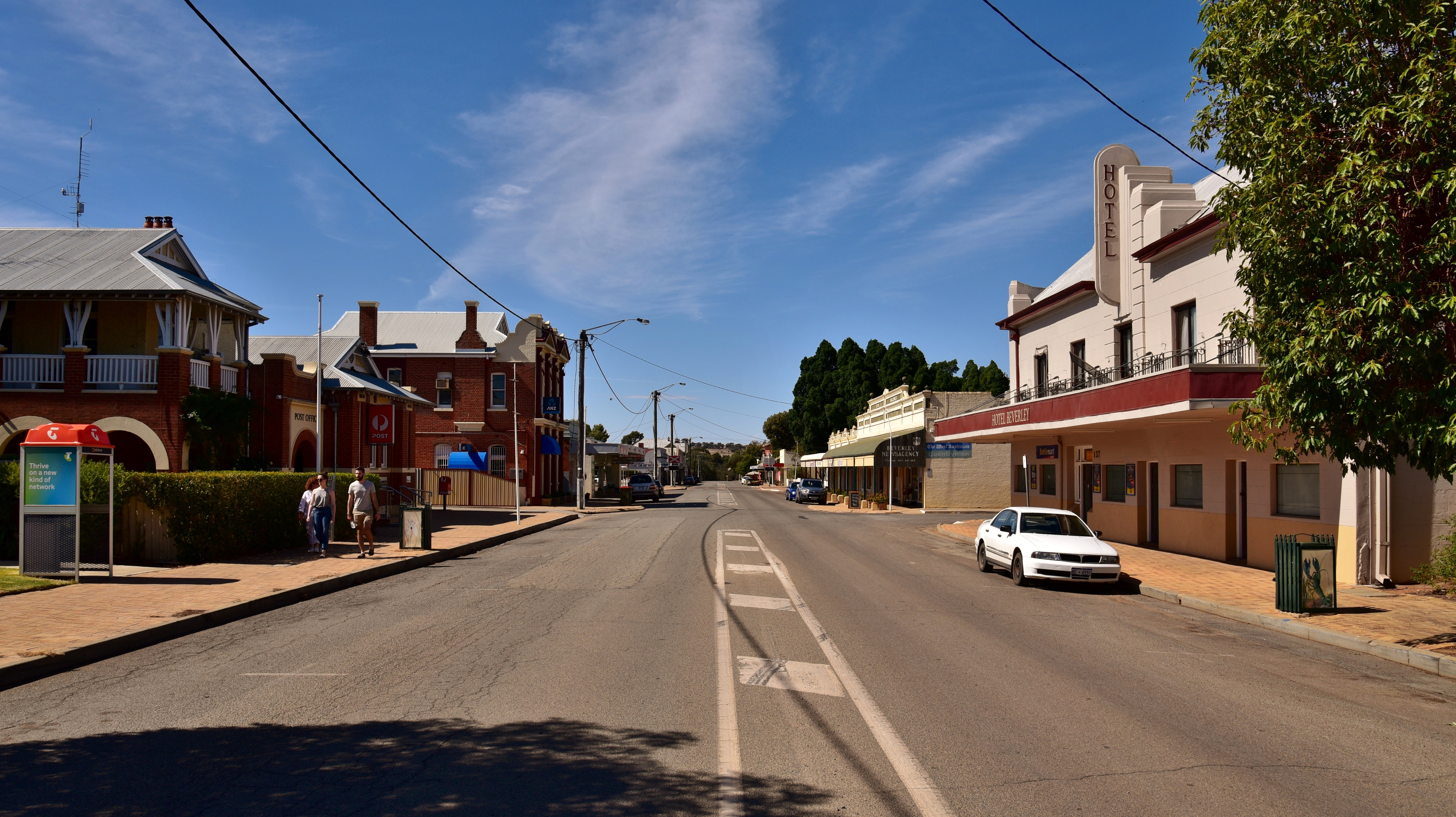 View of Vincent Street, Beverley, Western Australia